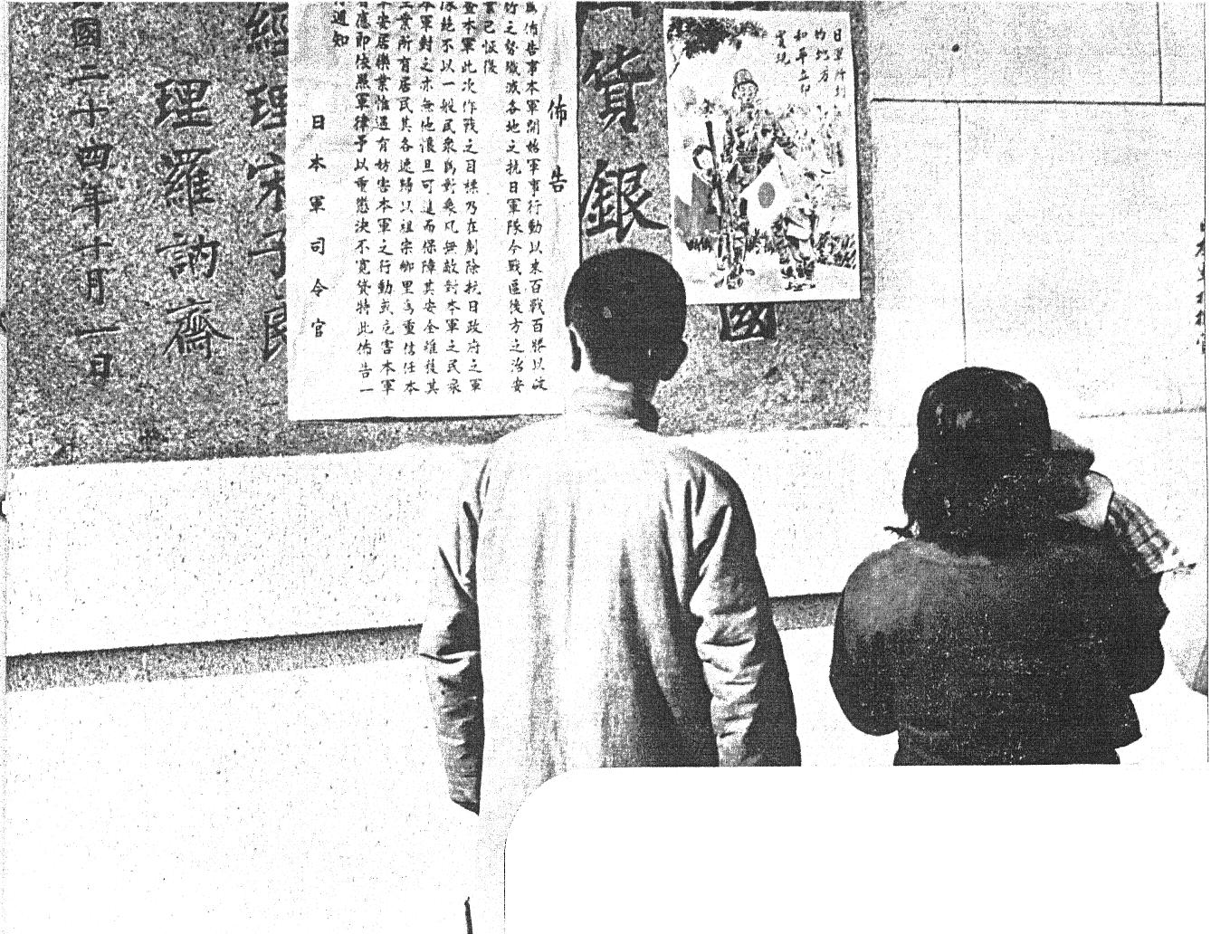 The proclamation of the Japanese armed forces which was posted in the Nanking city says that the objective of the battle is warlords, not ordinary Chinese people.